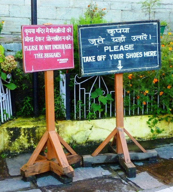 This photo was taken by me on a trip to Inida in 2010